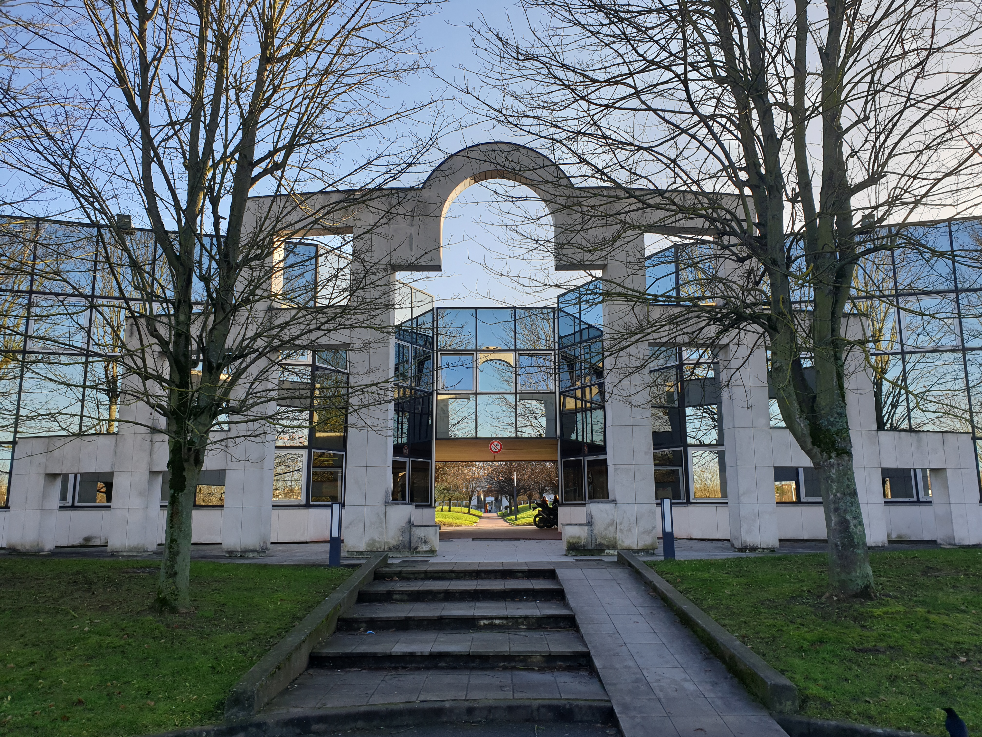 Entrance to the Centrale Parc tertiary campus in Chatenay-Malabry.